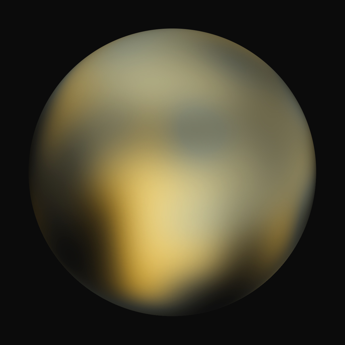 A best-fit color image/map of Pluto generated with the Hubble Space Telescope and advanced computers. It is unknown if the brightness differences are mountains, craters, or polar caps.